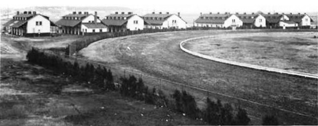 This old scene taken many years ago at Trois Rivieres, Quebec shows a portion of the track flanked by the quaint old stables. On the upper level of the barns were residences where participating horsemen and their families lived. Many get togethers including dances and Christmas parties were held there. A number of years ago, all of the old structures were torn down.